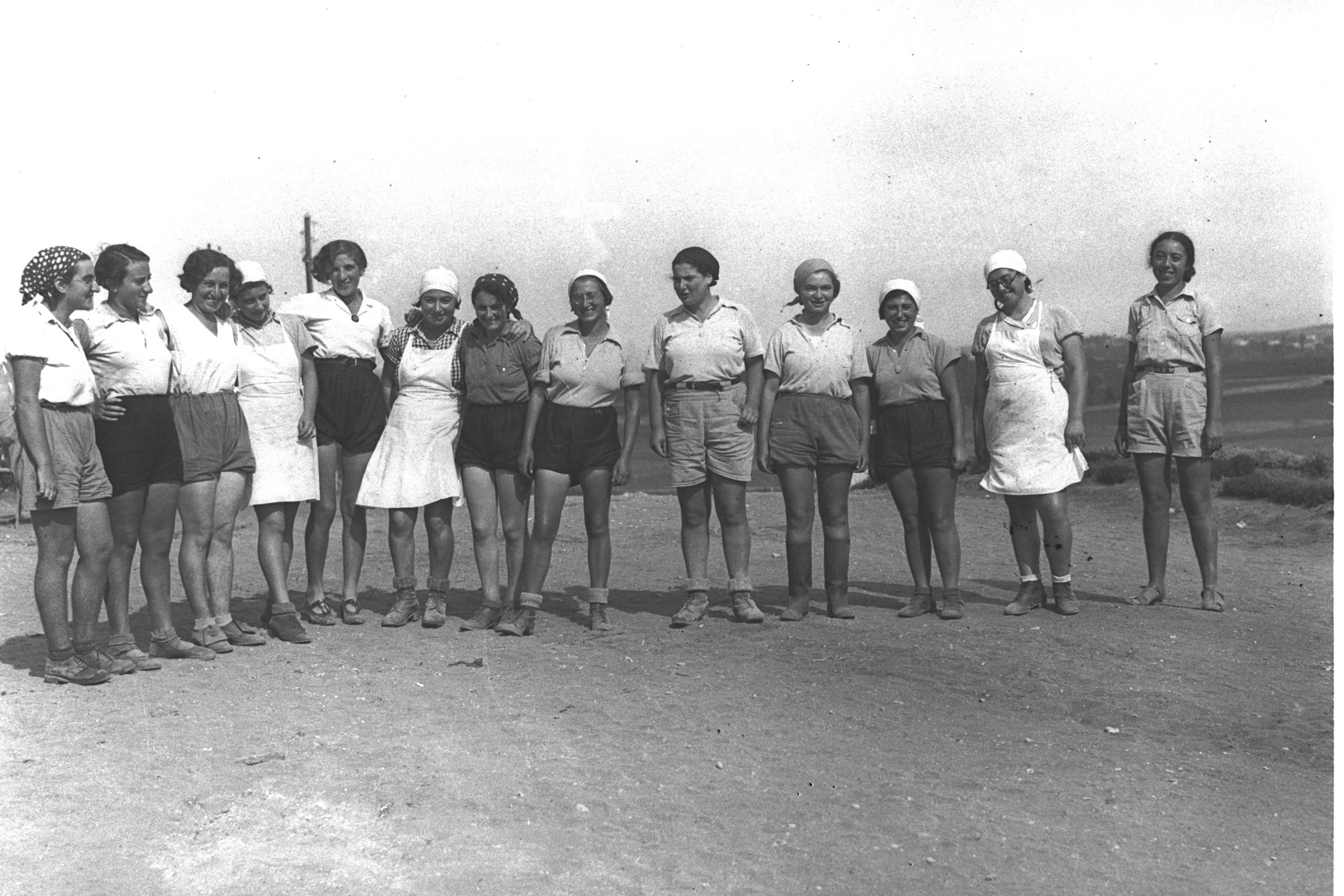 A GROUP OF STUDENTS OF THE WIZO AGRICULTURAL SCHOOL FOR GIRLS AT AYANOT. קבוצת נערות הלומדות בבית הספר החקלאי של ויצו בעיינות.